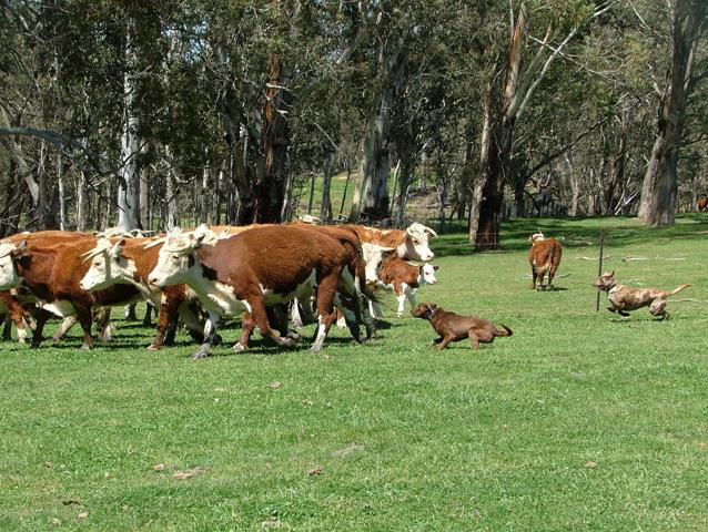 Koolie-solid red & red merle team gathering stock